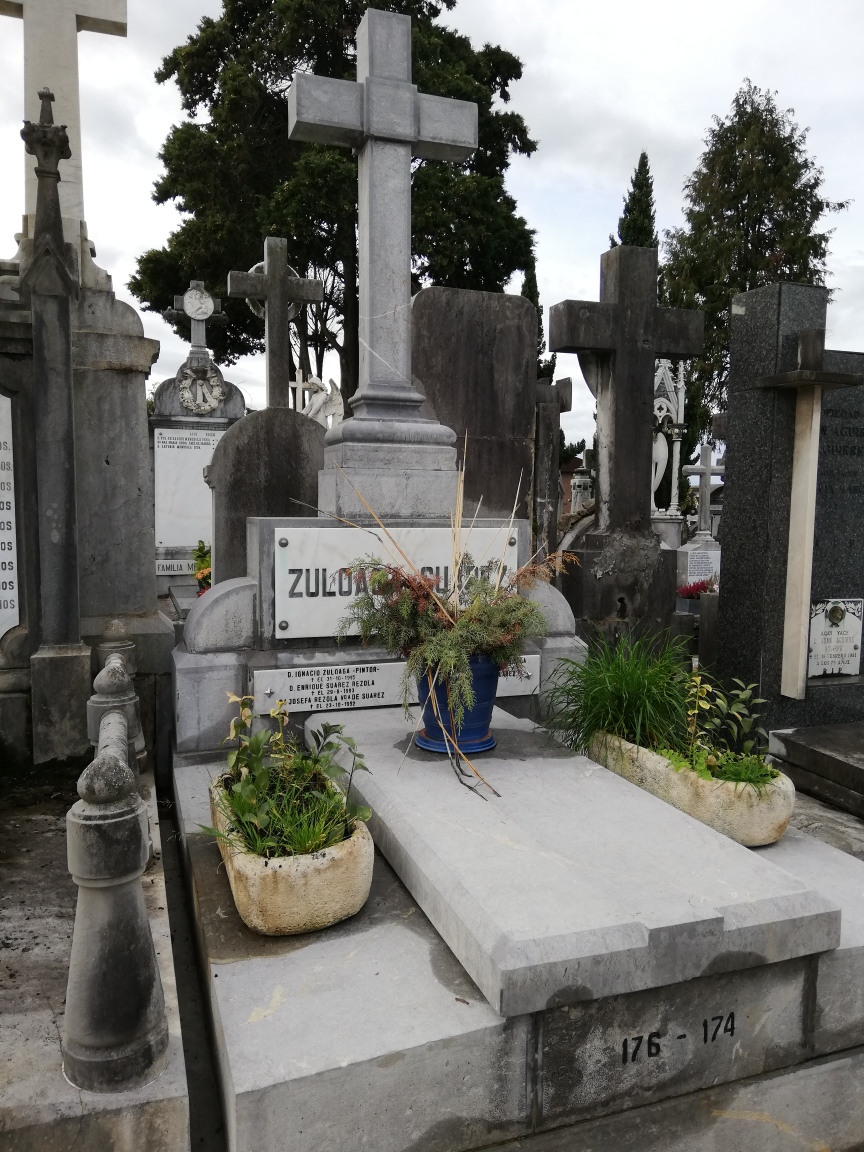 The Basque painter Ignacio Zuloaga is buried in the Polloe cemetery, in San Sebastián.